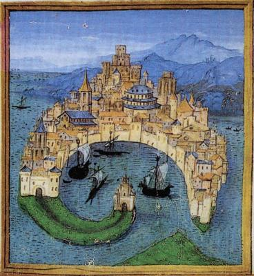 Unknown Miniaturist (16th century). View of Messina. Illumination from Rhegina, an Angelo Callimaco's poem (Rome, Biblioteca Nazionale)